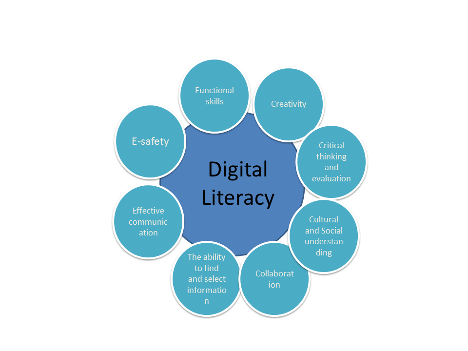 Digital literacy disciplines